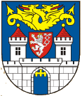 Coat of arms of the Kolín city (Czech Republic).